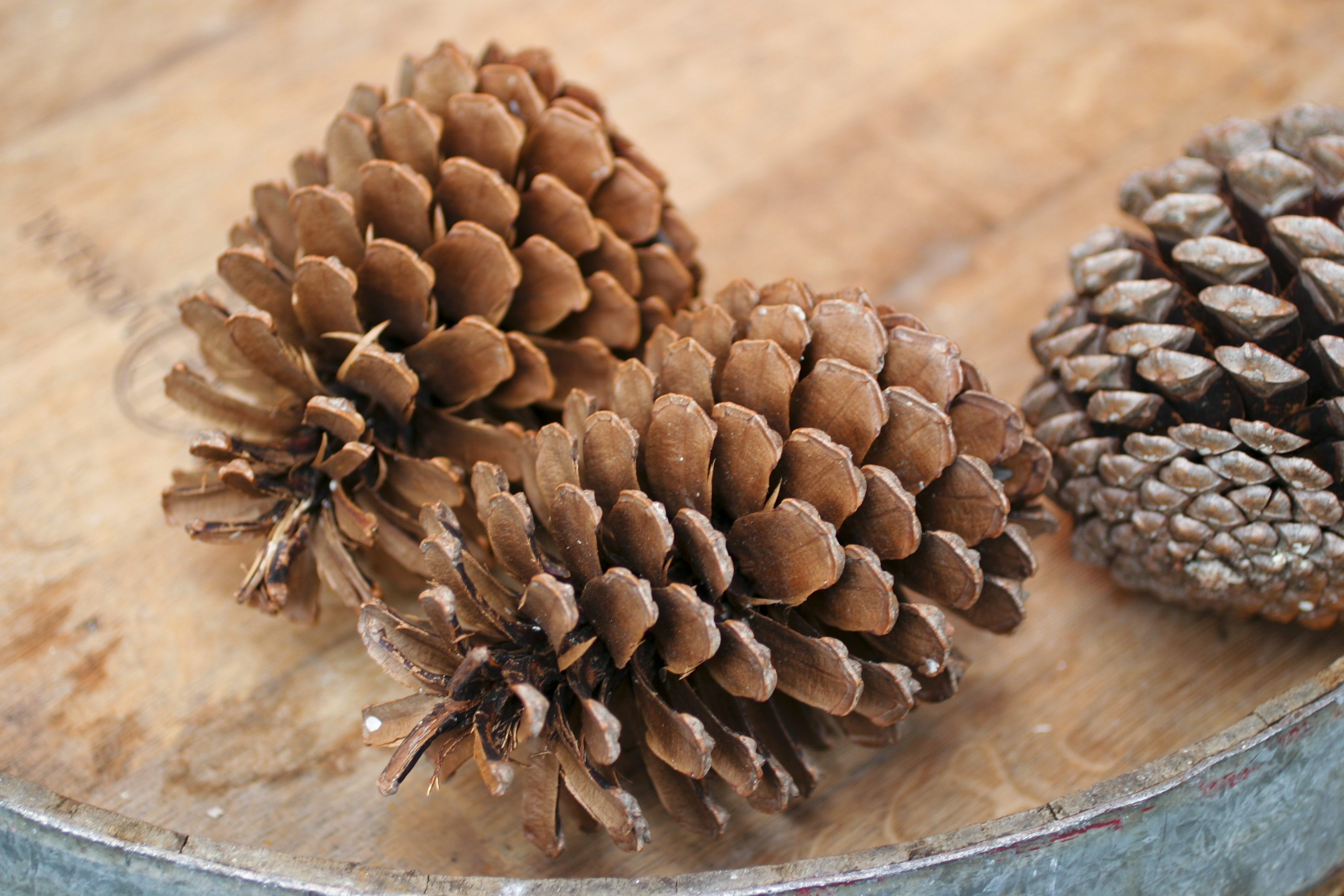 Pinus pinaster cones on a wine barrel outside a cafe, near Notre Dame, Paris, France. December 2005.